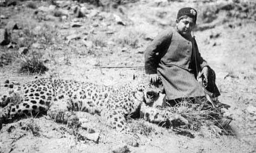 Ahmad Shah Qajar (then Ahamad Mirza), seventh and last Qajar King in Childhood.